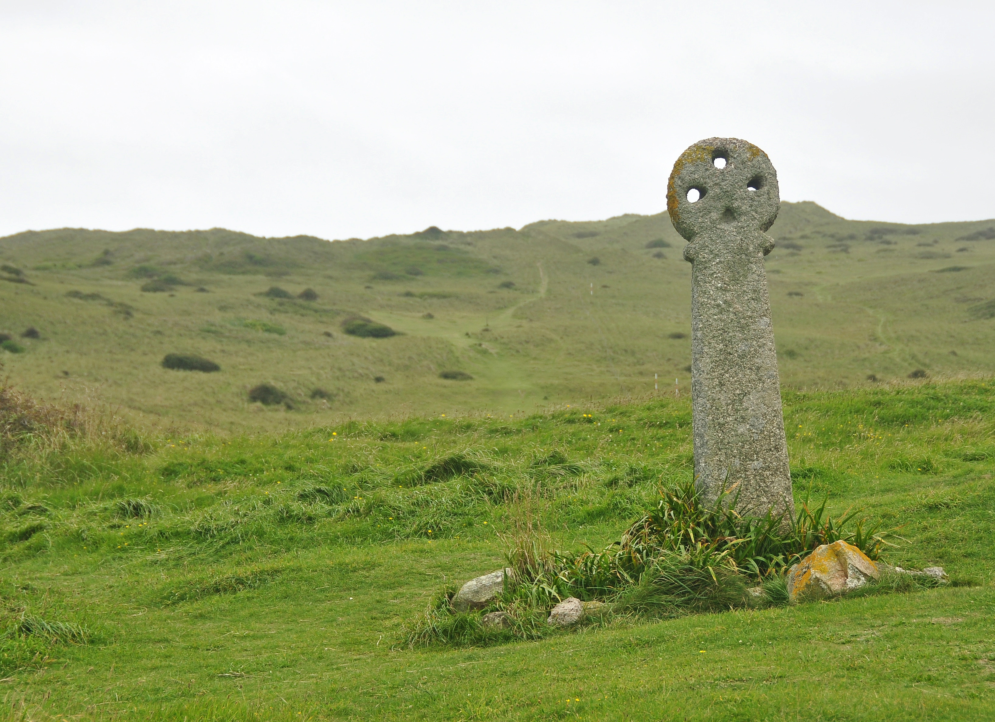 St Piran's Cross in Penhale Sands, near Perranporth, Cornwall.